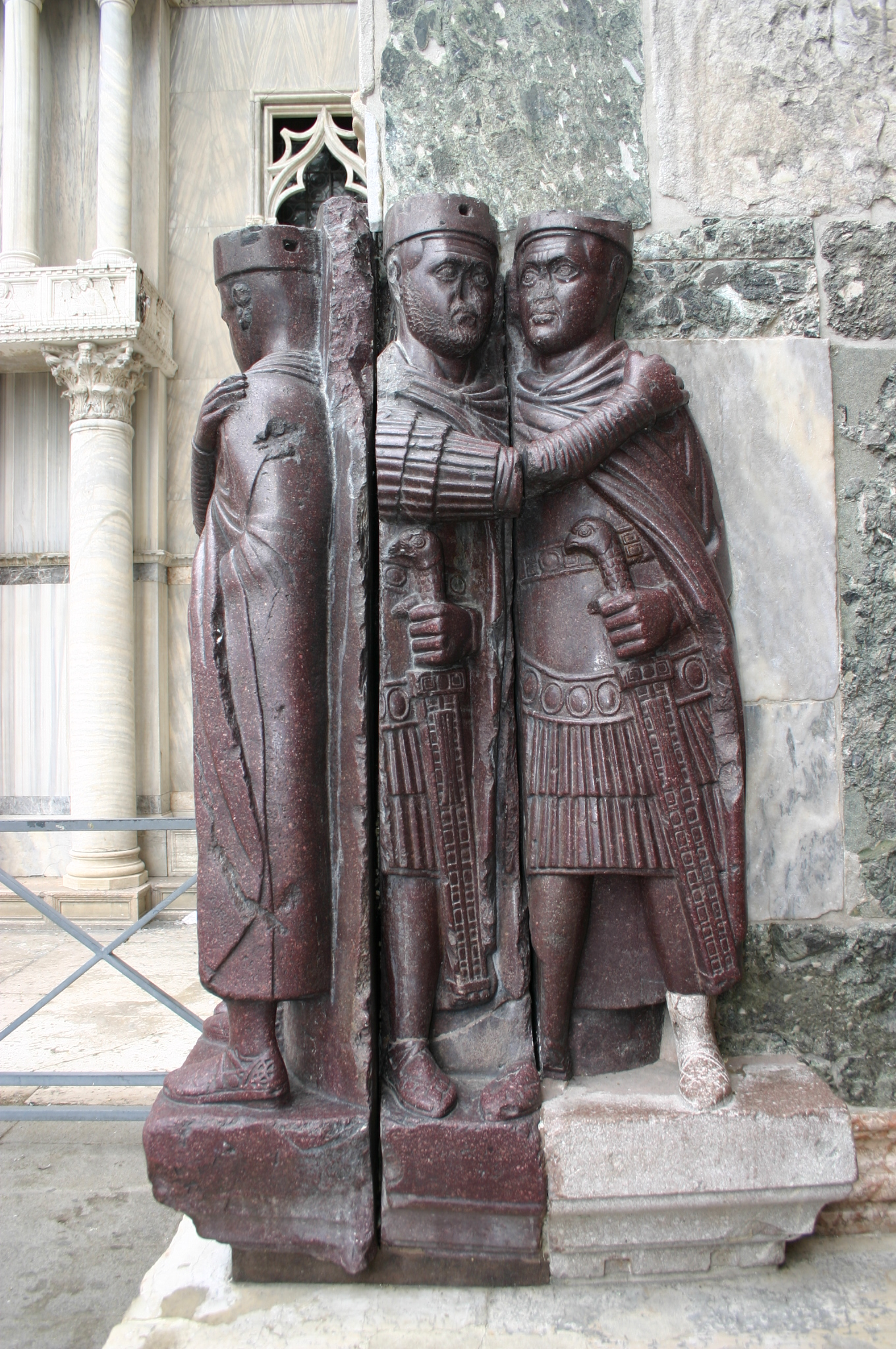 The tetrarchs (from the Greek words for "Four rules") were the four co-rulers that governed the Roman Empire as long as Diocletian's reform lasted. Here they were portraied embracing, in sign of harmony, in a porphyry sculpture dating from the 4th century, produced in Asia Minor, today on a corner of Saint Mark's in Venice, next to the "Porta della Carta". Picture by Giovanni Dall'Orto, August 8, 2007.